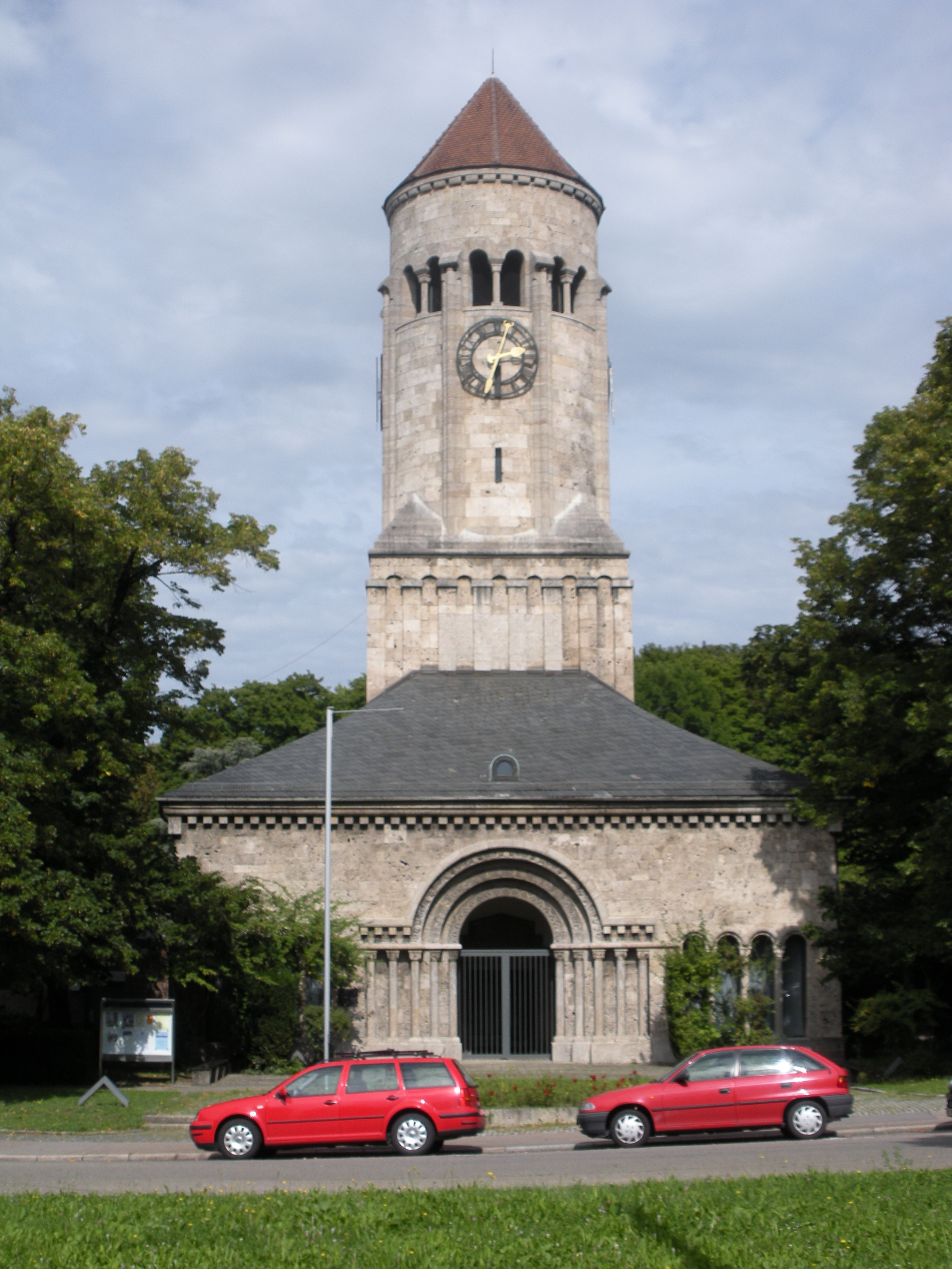 Protestant Church of the Savior in Stuttgart-East